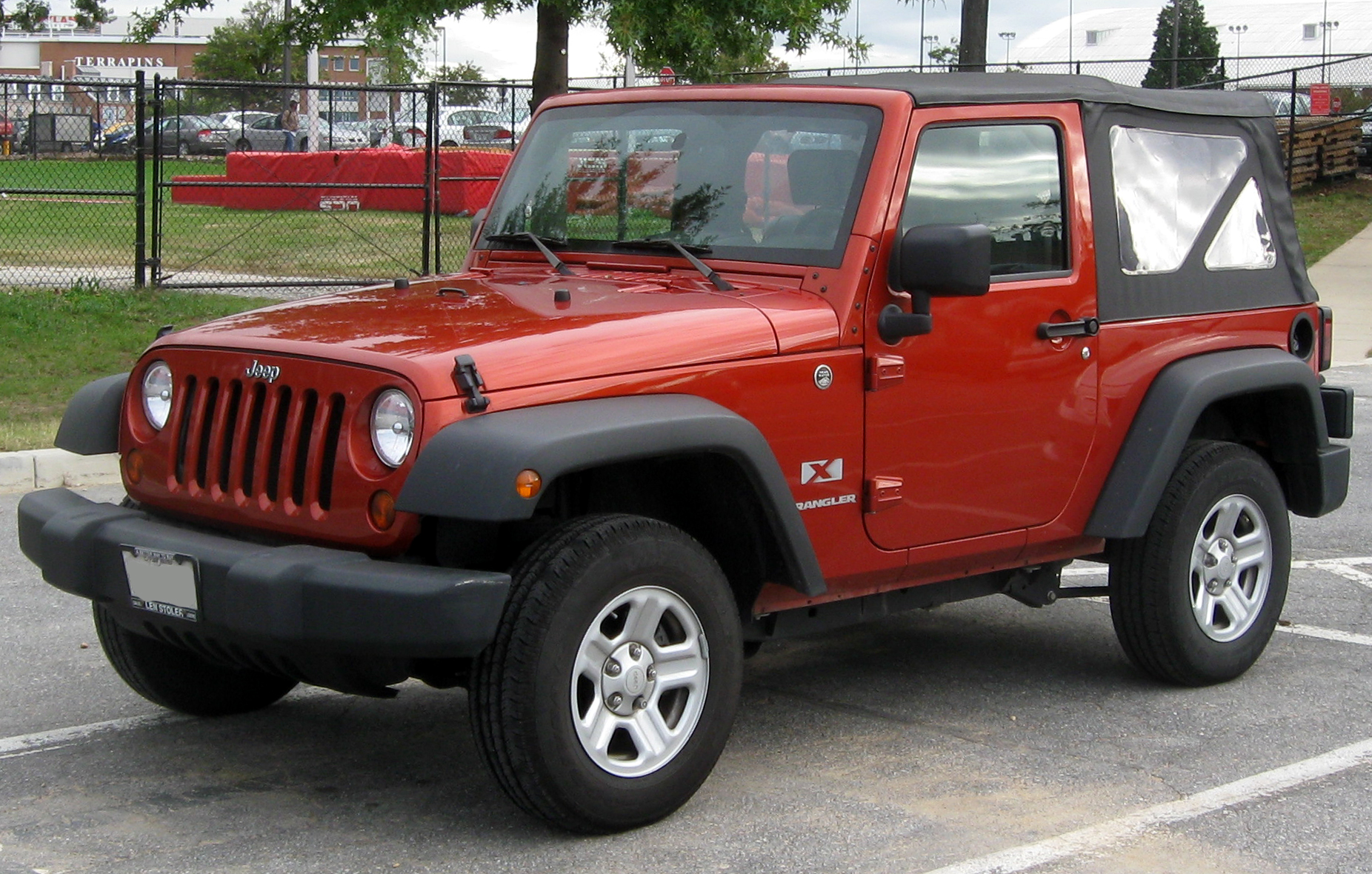 2007-2010 Jeep Wrangler photographed in College Park, Maryland, USA.